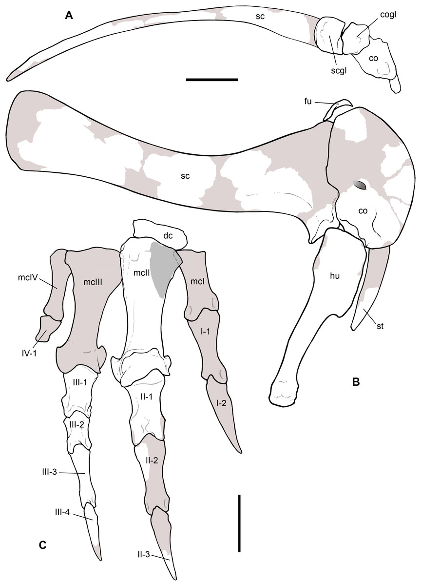 Figure 10: Reconstruction of the pectoral girdle and forelimb of Saltriovenator zanellai. Composite right scapula and coracoid in ventral view (A), and composite right pectoral girdle, humerus and manus in lateral view (B–C). The scapular body and blade, and the proximal portion of the humerus are reversed left elements. Preserved elements in white, reconstructed bone in light gray, exposed inner bone in gray, hidden bone in dotted lines. Abbreviations as in text. Scale bar equals 10 cm in (A) and (B), five cm in (C). Drawings by M. Auditore.